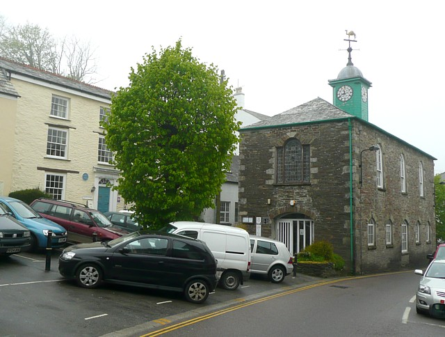 The Town Hall, Camelford